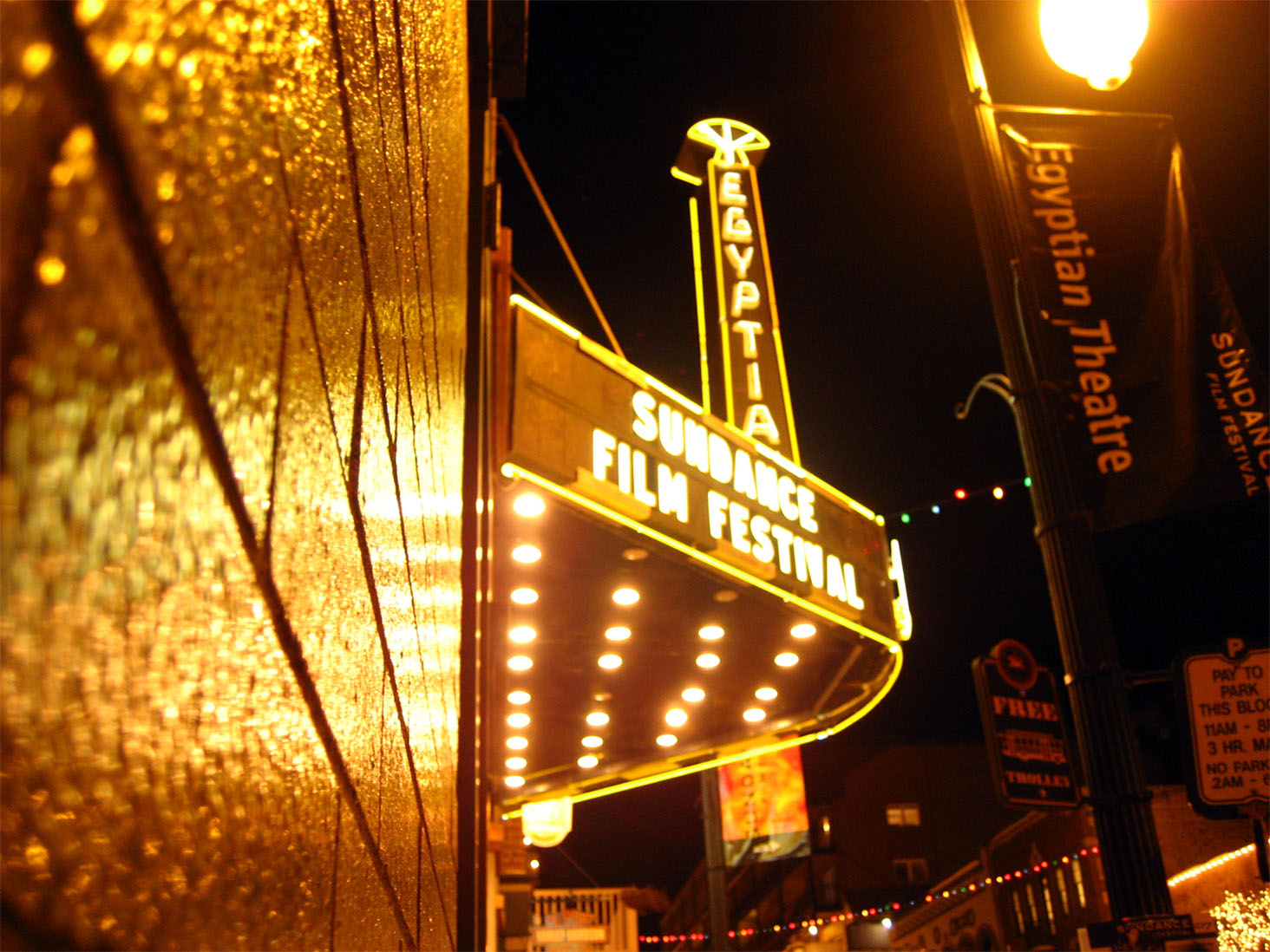 Egyptian Theatre at night (Sundance Film Festival 2007)